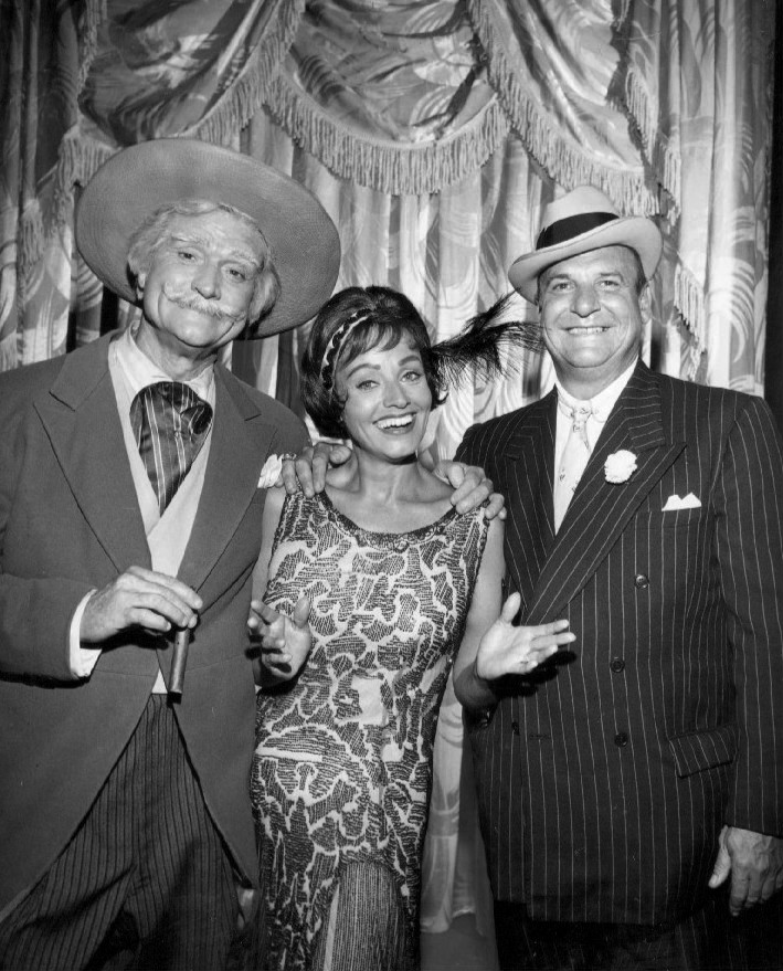 Red Skelton as San Fernando Red, Kay Starr, Jackie Coogan from Skelton's 1962 television show.